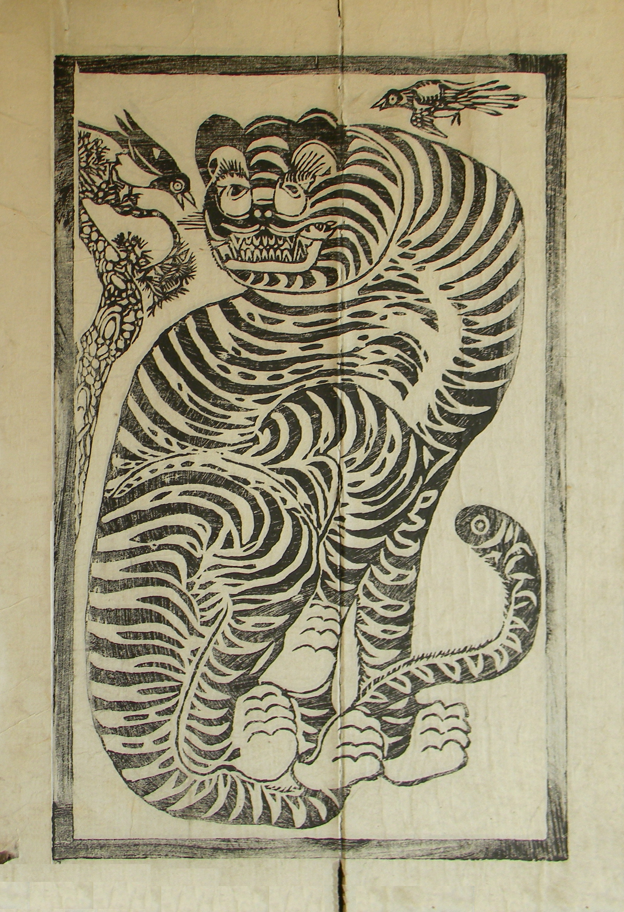 Another photo of this tiger, corrected from perspective. See Korean.Folk.Village-Minsokchon-04.jpg for more details.